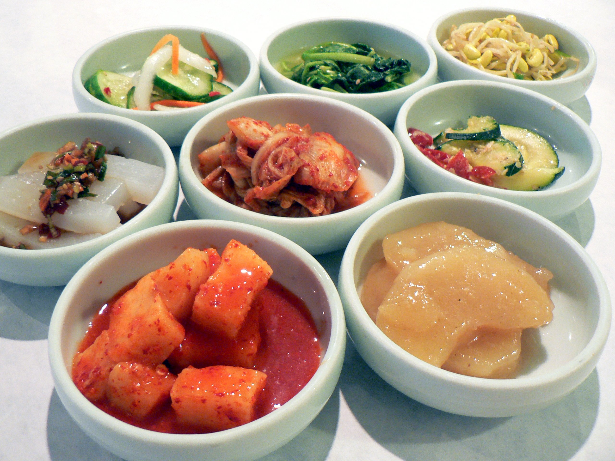 Various banchan on the table. Top row: Oi-muchim (cucumber), sigeumchi-muchim (spinach), kongnamul-muchim (bean sprouts). Middle row: cheongpo-muk (mung bean jelly), kimchi, hobak-muchim (zucchini). Bottom row: kkakdugi (a kimchi made of chopped daikon), neulgeun hobak ("old pumpkin/zucchini").